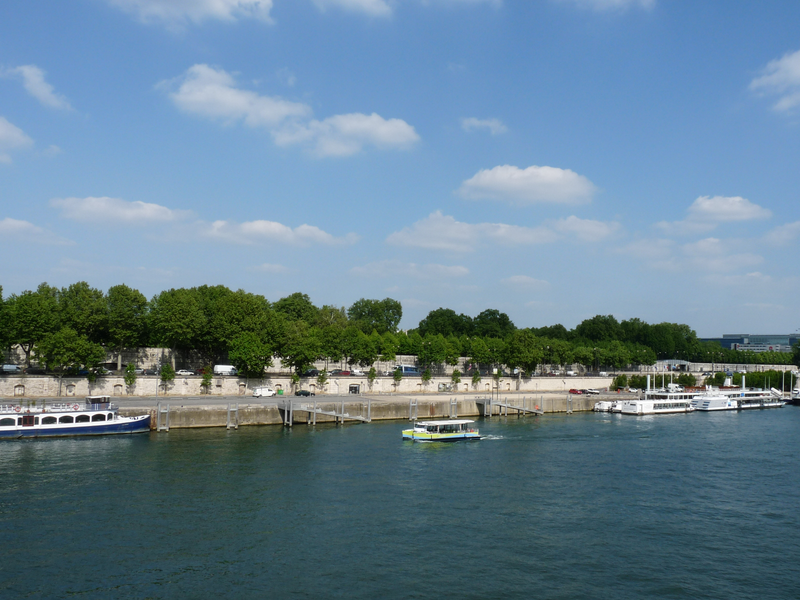 Quai de Bercy in Paris, seen from the Passerelle Simone-de-Beauvoir